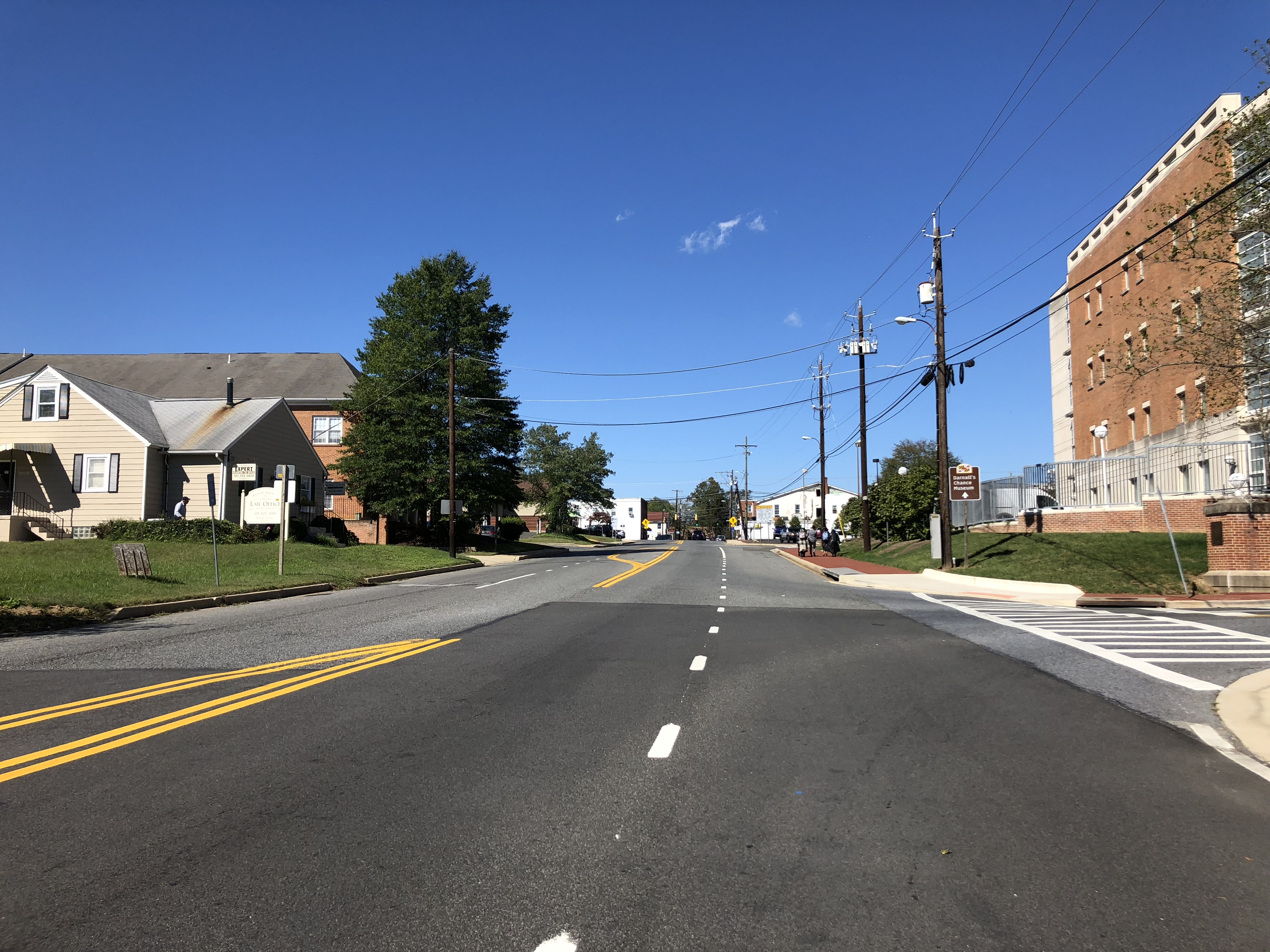 View north along Maryland State Route 717 (Water Street) at Judges Drive in Upper Marlboro, Prince Georges County, Maryland